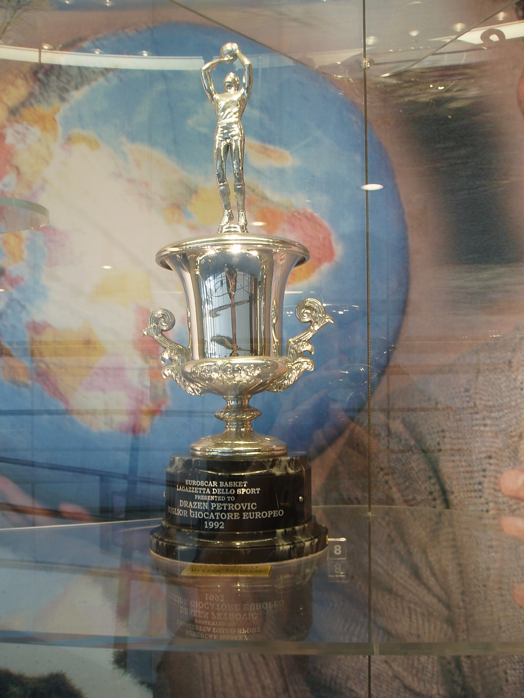 1992 Euroscar award won by Drazen Petrovic in Drazen Petrovic museum, Zagreb.